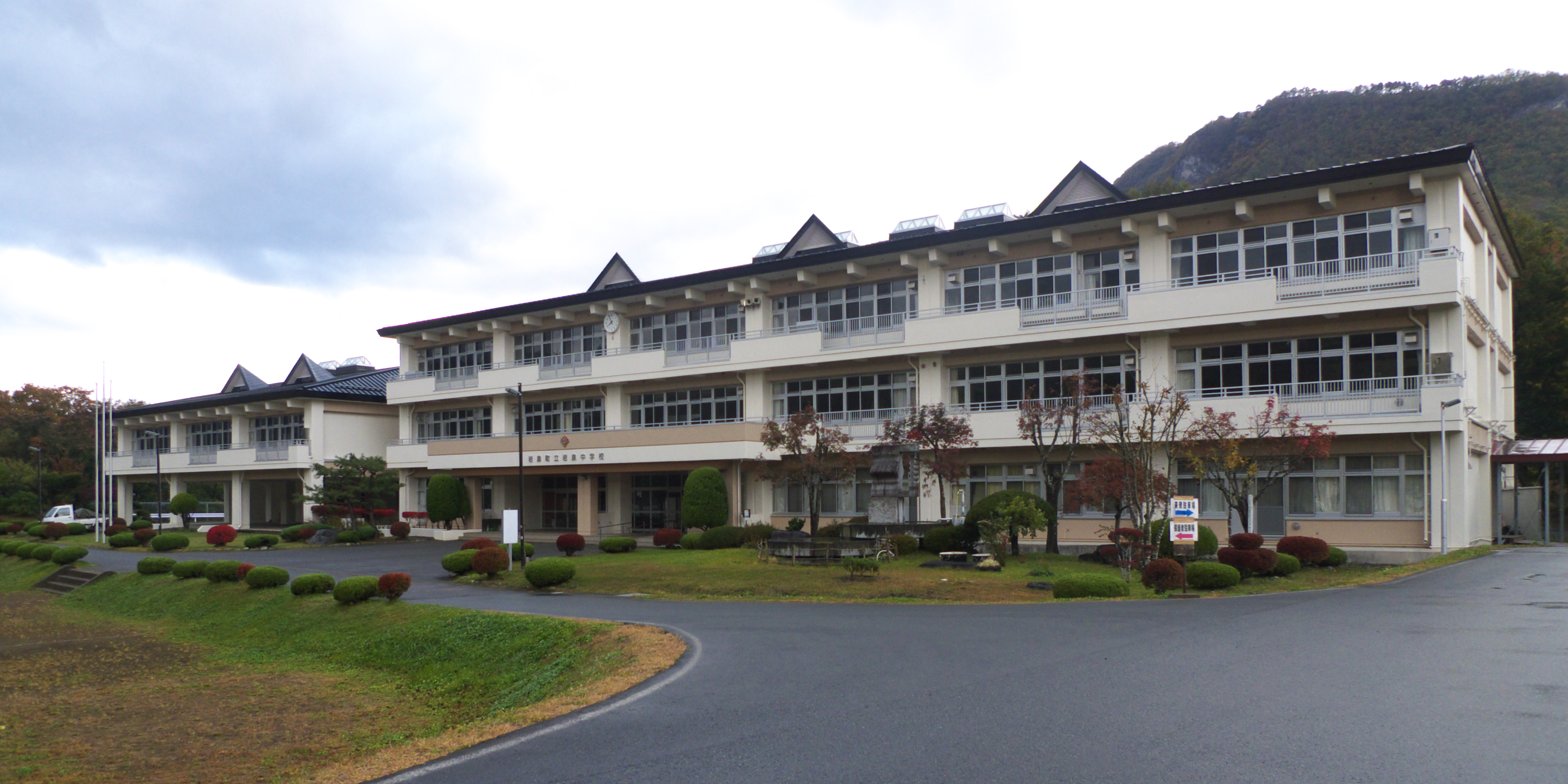 Iwaizumi Municipal Iwaizumi Junior High School in Iwaizumi Town, Iwate Prefecture, Japan